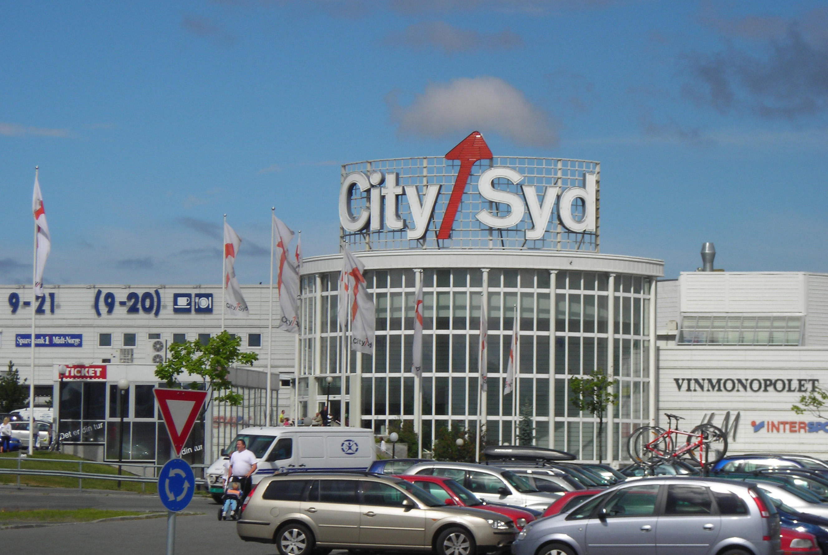 The City Syd mall in Trondheim